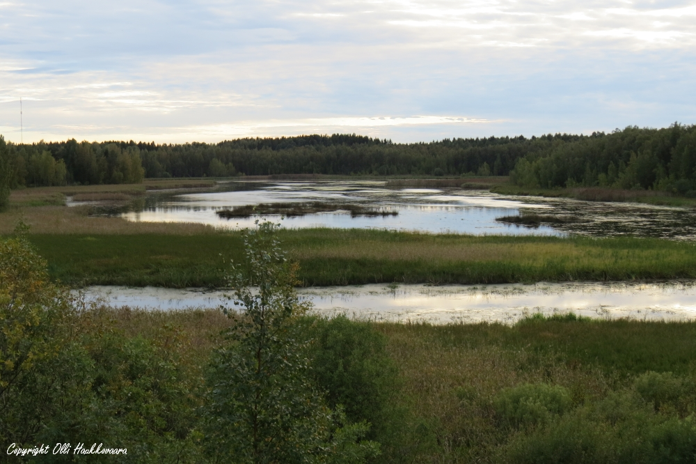 View from northeast to southwest from Vallonjärvi bird observation tower